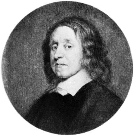 Portrait of Henry Cromwell (1628 – 1674) by an unknown artist after a contemporary portrait. By courtesy of the trustees of the British Museum